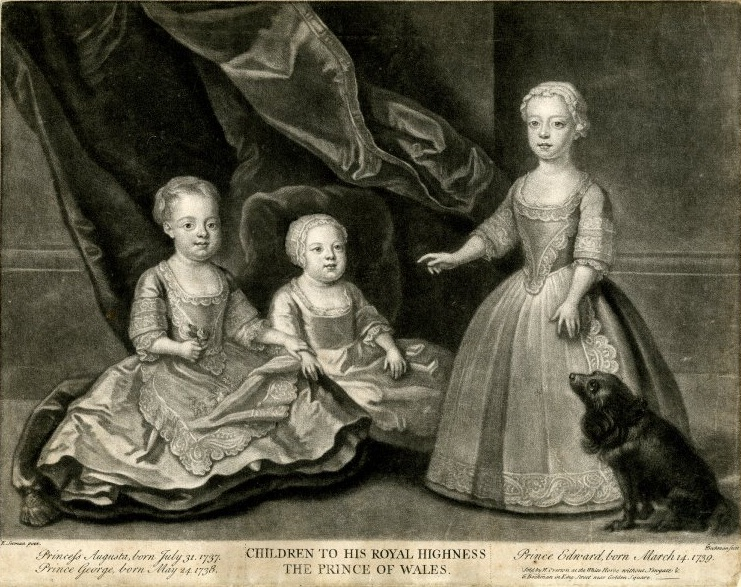 Children to his Royal Highness the Prince of Wales (from left to right: George III, Edward, and Augusta)